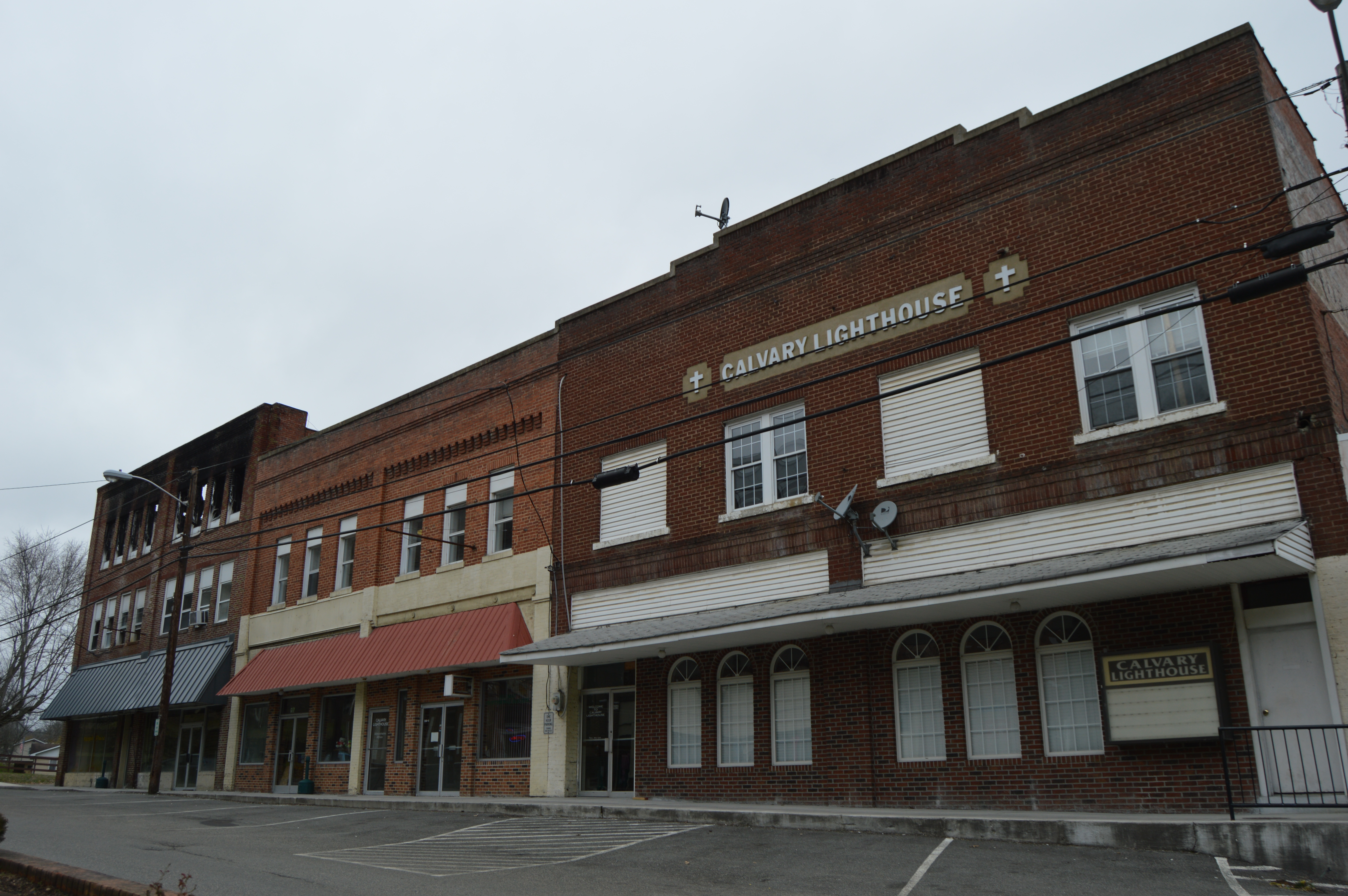 Buildings on Railroad Avenue just west of Main Street in downtown Honaker, Virginia, United States. This block is part of the Honaker Commercial Historic District, a historic district that is listed on the National Register of Historic Places.